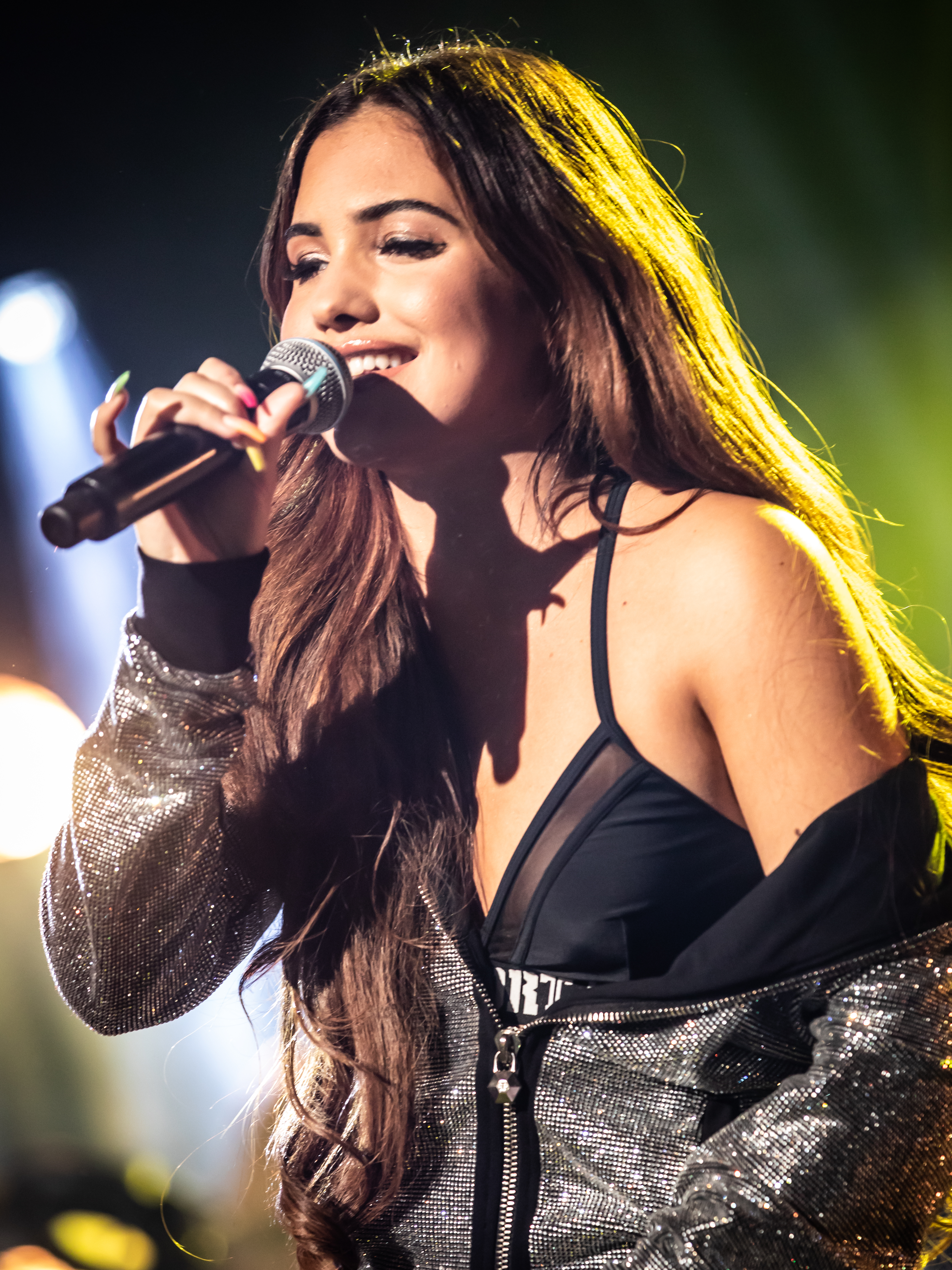 British-Swedish singer Mabel at the SWR3 New Pop Festival 2018